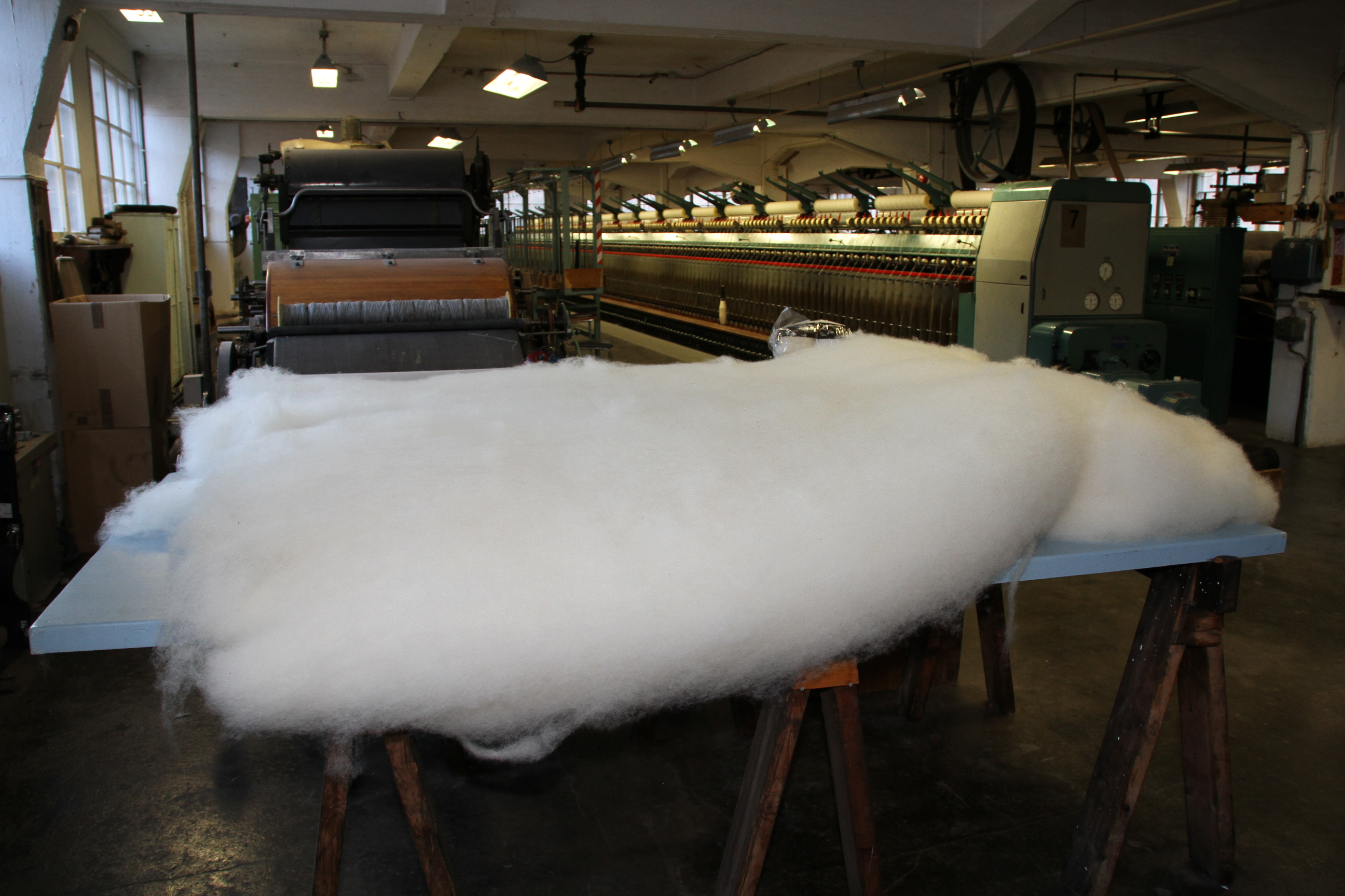 Combed wool ready to be further processed in the spinnery department of Sjøllingstad Woolen Factory, a living textile museum near Mandal, Norway.